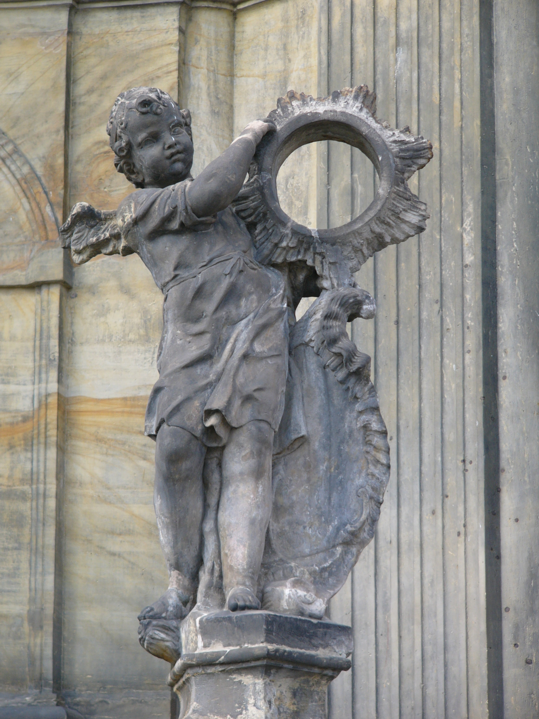 Statue of one of twelve Lucifers on the Holy Trinity Column in Olomouc in Olomouc (Czech Republic).